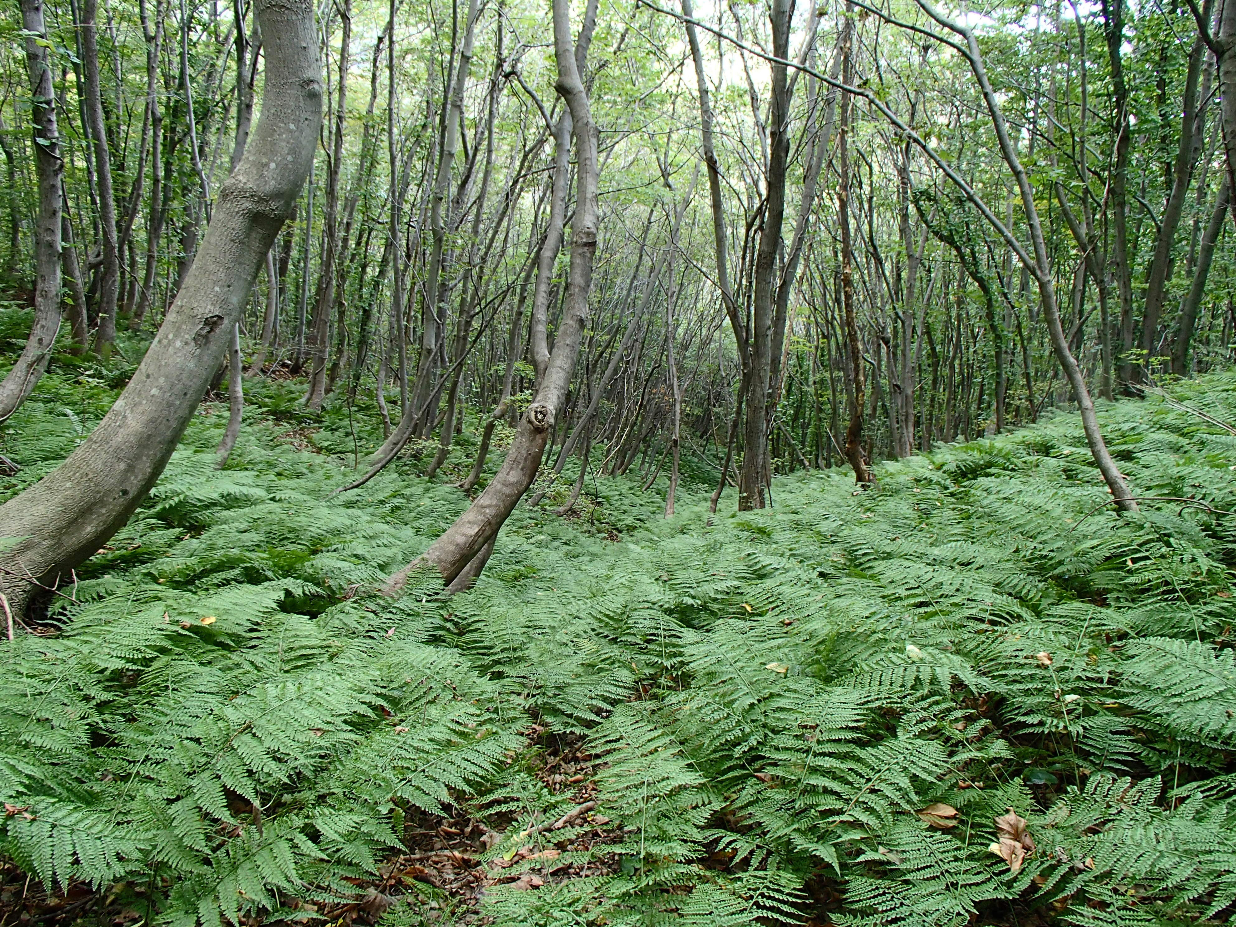 This is a photo of the forest leading up Seonginbong peak on Ulleung Island.